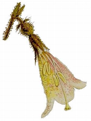 Linnaea borealis